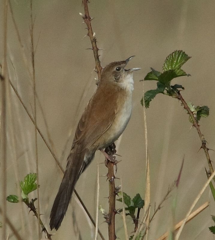 Fan-tailed Grassbird (Schoenicola brevirostris) Aka Broad-tailed Warbler. Location: Cedara Farm, Pietermaritzburg, KwaZulu-Natal, South Africa.